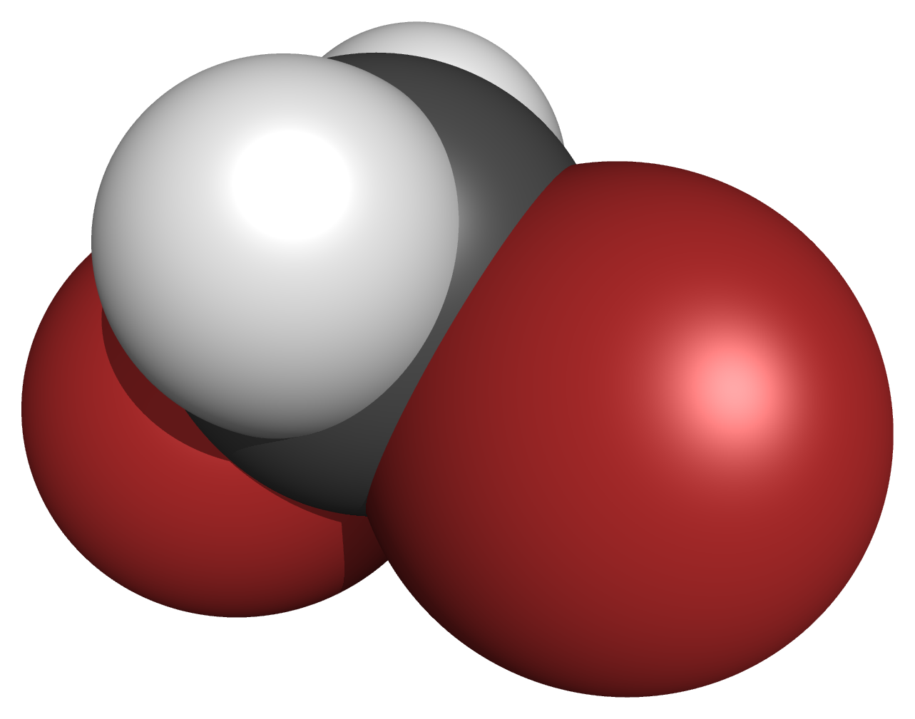 Dibromomethane, created using PyMol. Source of 3D data is PubChem